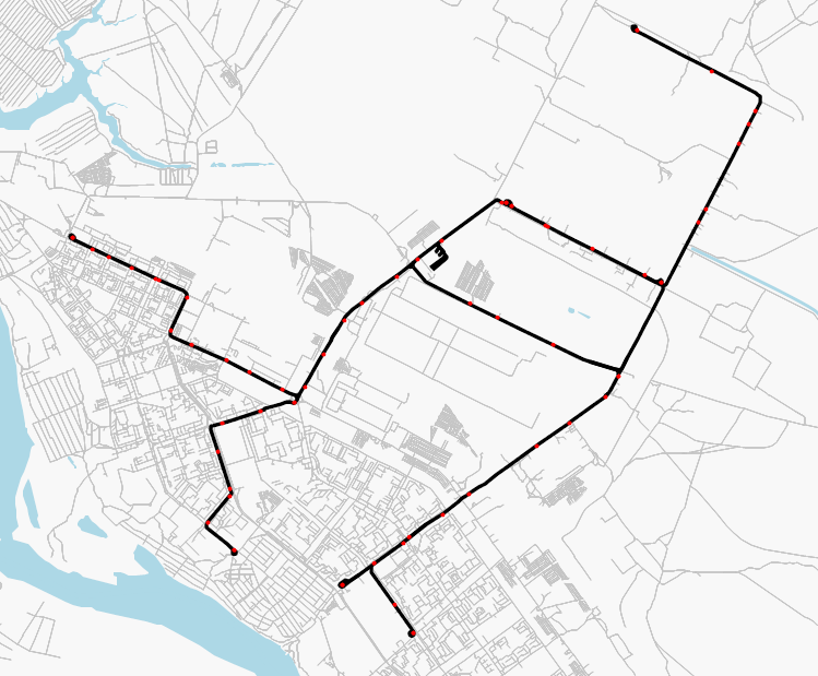 Volzhskiy tram system, rendered using OSM data. This map may be incomplete, and may contain errors. Don't rely solely on it for navigation.